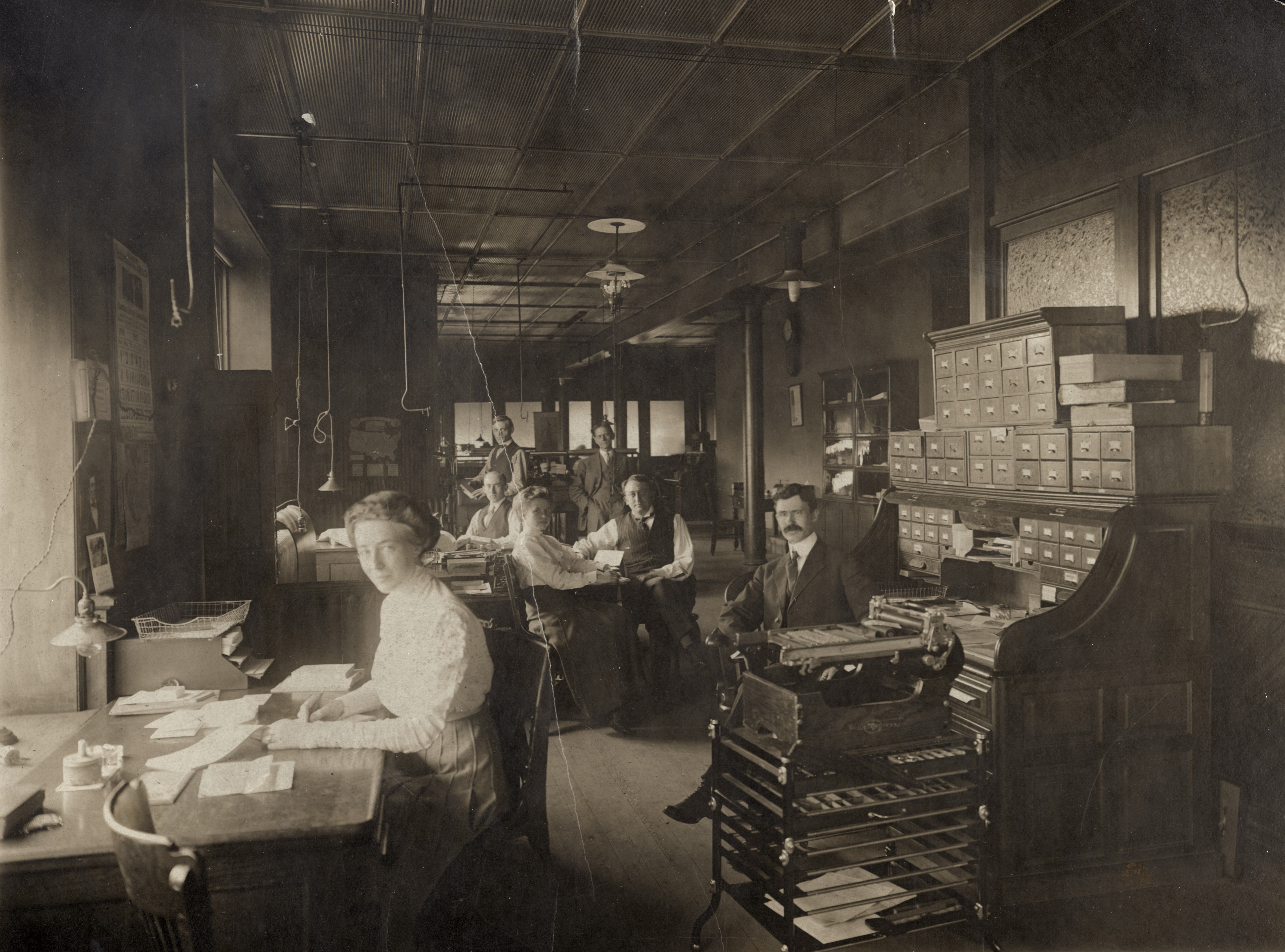 Horizontal photograph of the interior of an office space with men and women sitting at desks and standing. Title: Women and Men Working in Office at Standard Adding Machine Company, 3701 Forest Park Boulevard.